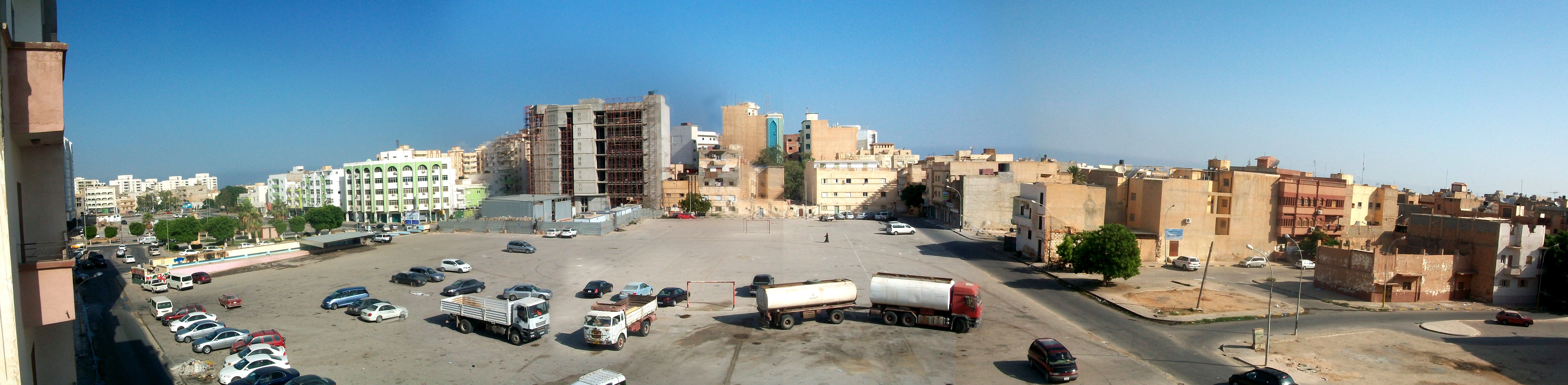 Panorama of Berka Square, Benghazi — in 2012.